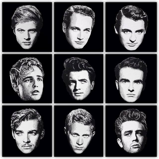 Havi Schanz celebrates the Golden Age of cinema with striking portraits of Robert Redford, Paul Newman, Cary Grant, Marlon Brando, Rock Hudson, Montgomery Clift, Clark Gable, Steve McQueen and James Dean.